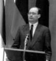 U.S. Vice President Dan Quayle’s visit to the Supreme Council of Lithuania,Vilnius, February, 1992